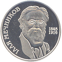 Coin of Ukraine